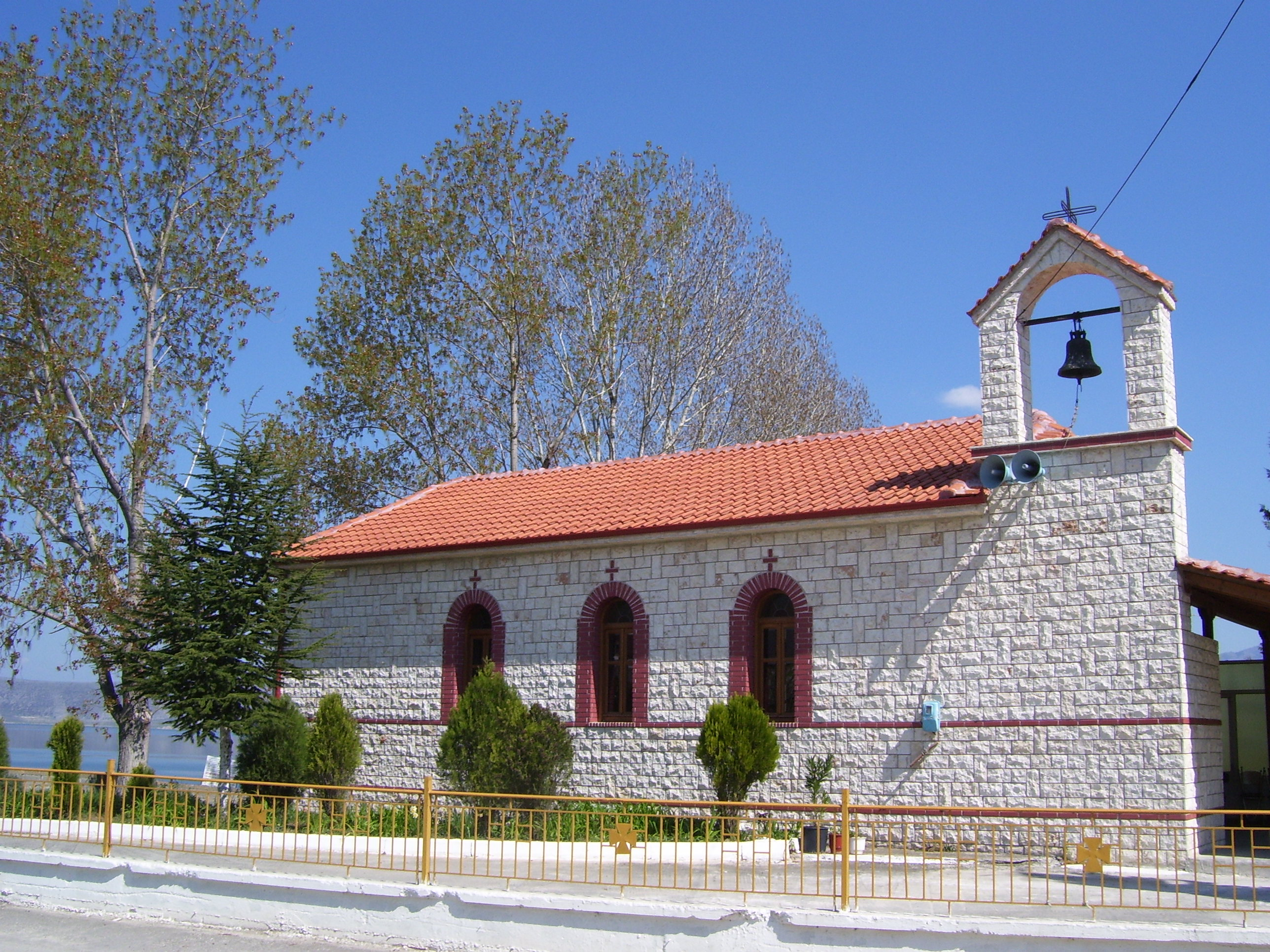 Church of Agios Panteleimonas in the village of Agios Panteleimonas, municipality of Amyndeo, Greece.